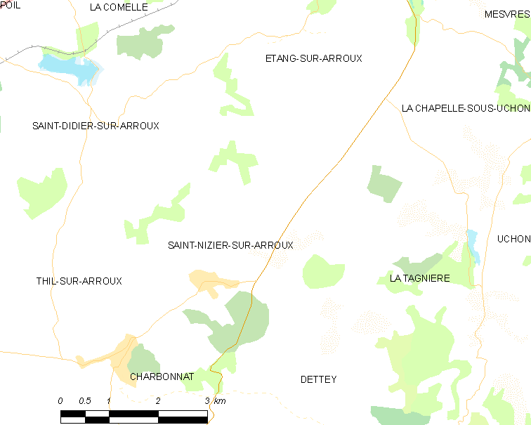 Map of French municipality